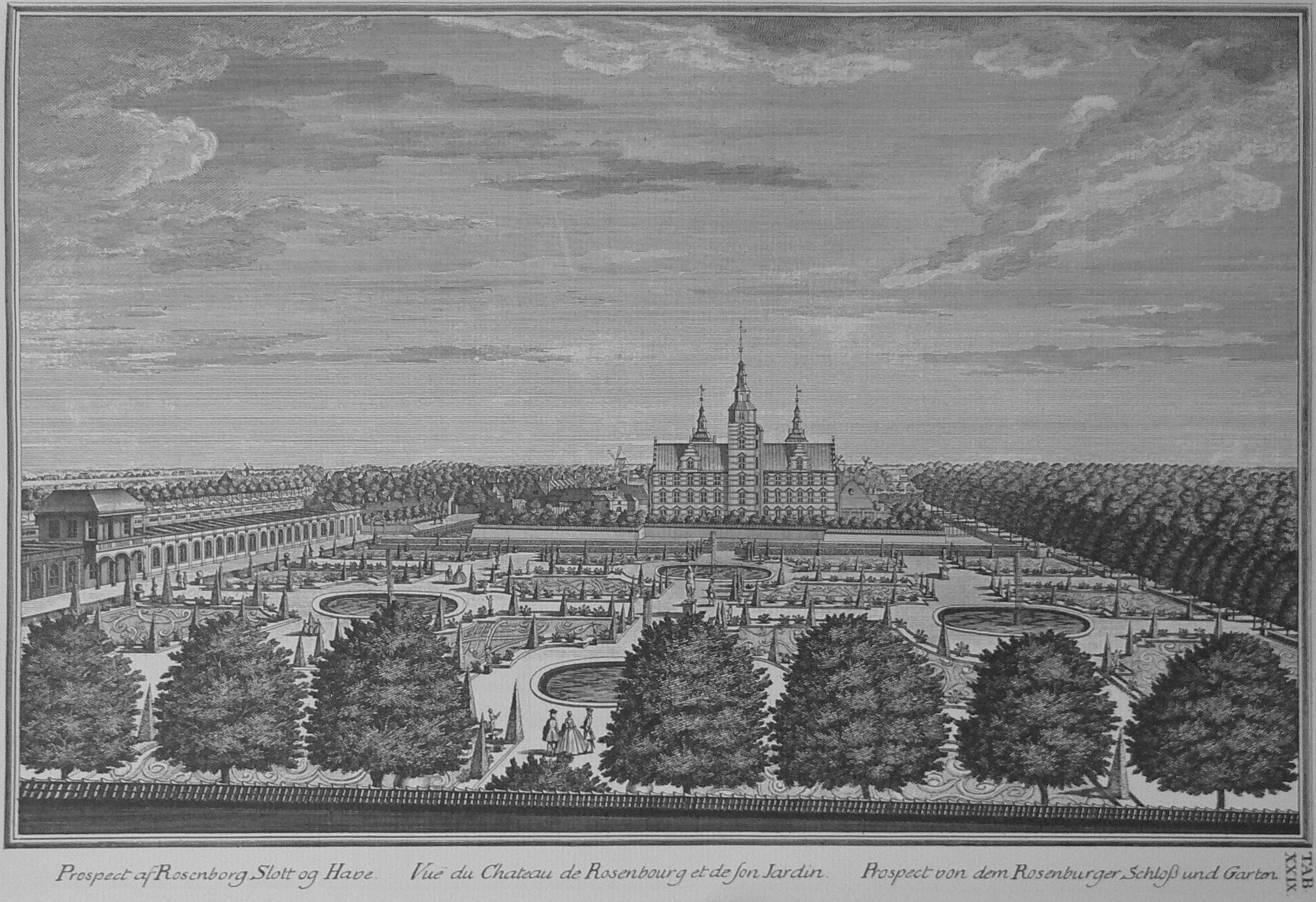 Prospect of Rosenborg Castle and garden.